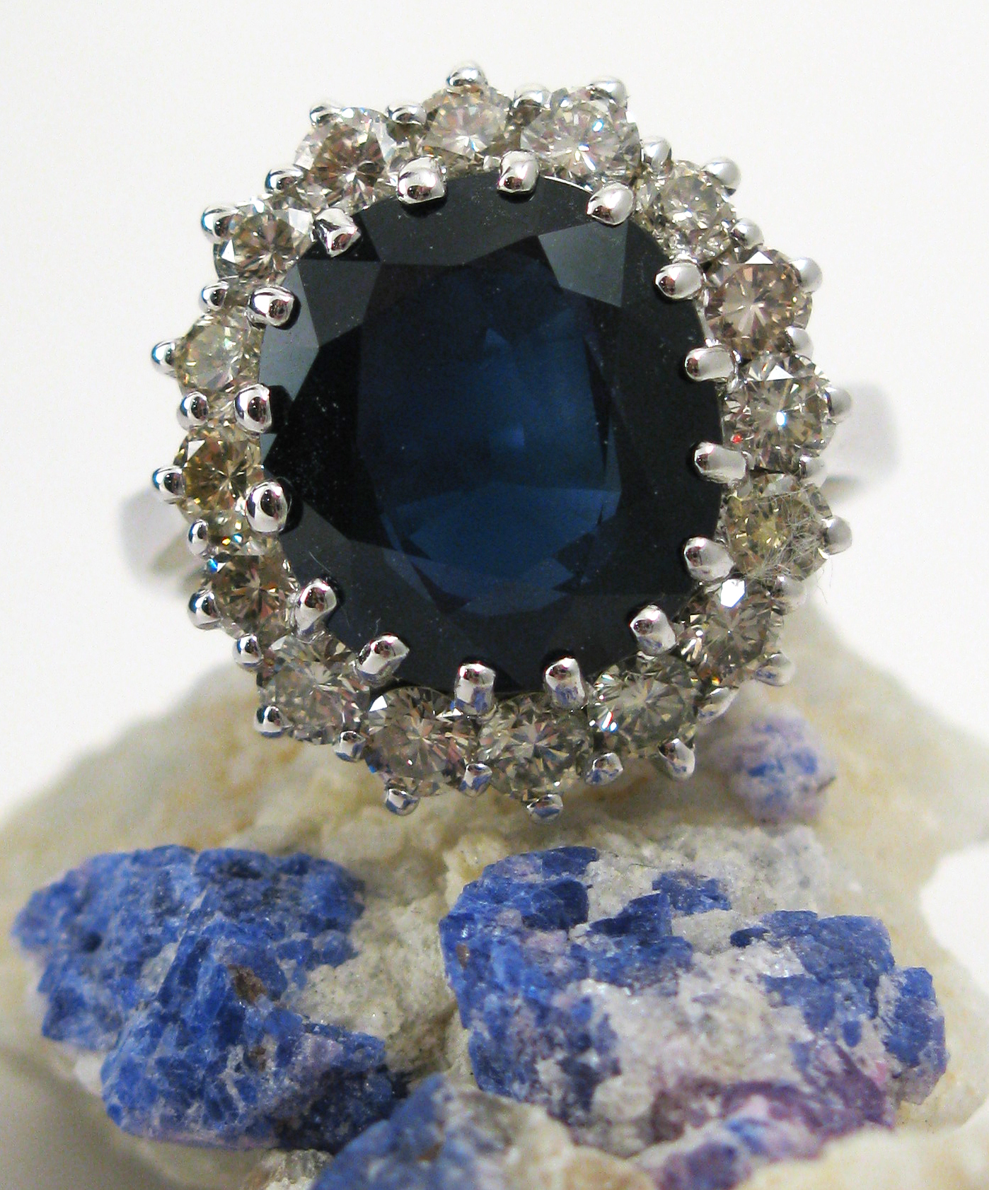 Does this look familiar? Nice Sapphire ring, large 7.7ct size surrounded by 16 beautiful fancy diamonds all set into 14ct white gold. Set size = 19.65mm x 17.82mm x 8.58mm. Ring size 58 / Q-R Further information or more images of individual pieces please contact us with image number: Ann Porteus Sidewalk Tribal Gallery 19-21 Castray Esplanade, Battery Point 7004 Hobart Tasmania Australia t: 613 6224 0331 ABN 99 900 255 141